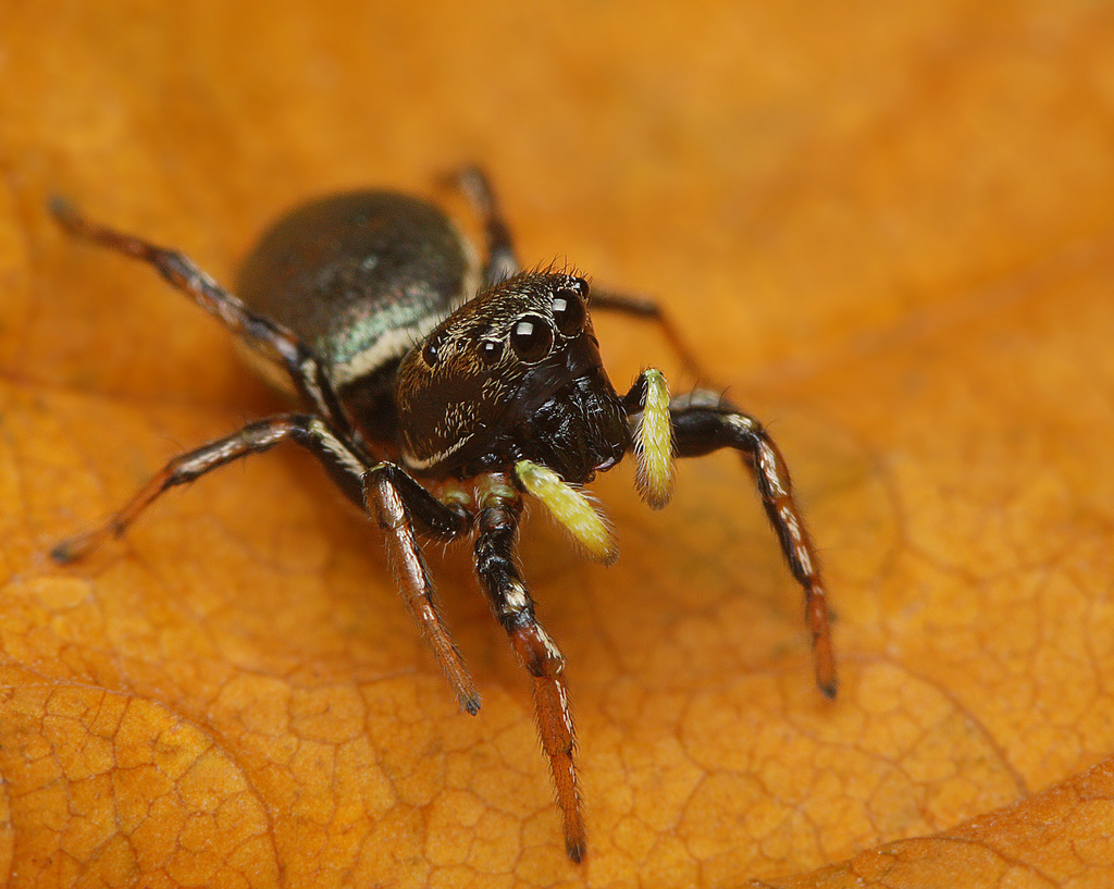 Jumping spider - Heliophanus sp.